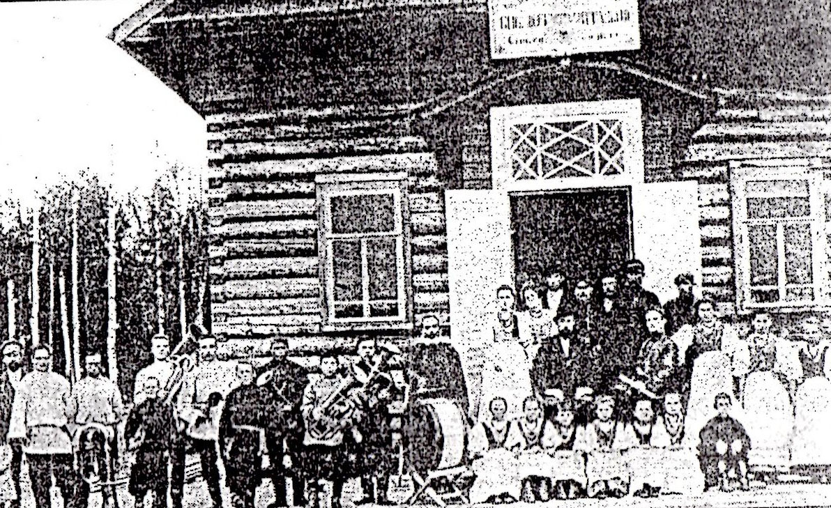 old factory near Archangelsk